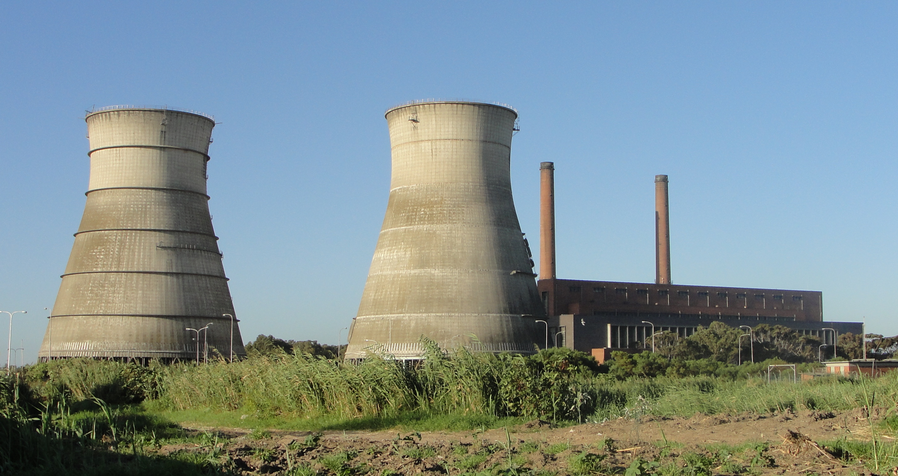 Athlone Power Station, a disused power station in Cape Town, South Africa. The reinforcing rings on the rightmost cooling tower collapsed on 14 February 2010, leading to plans to demolish the towers.